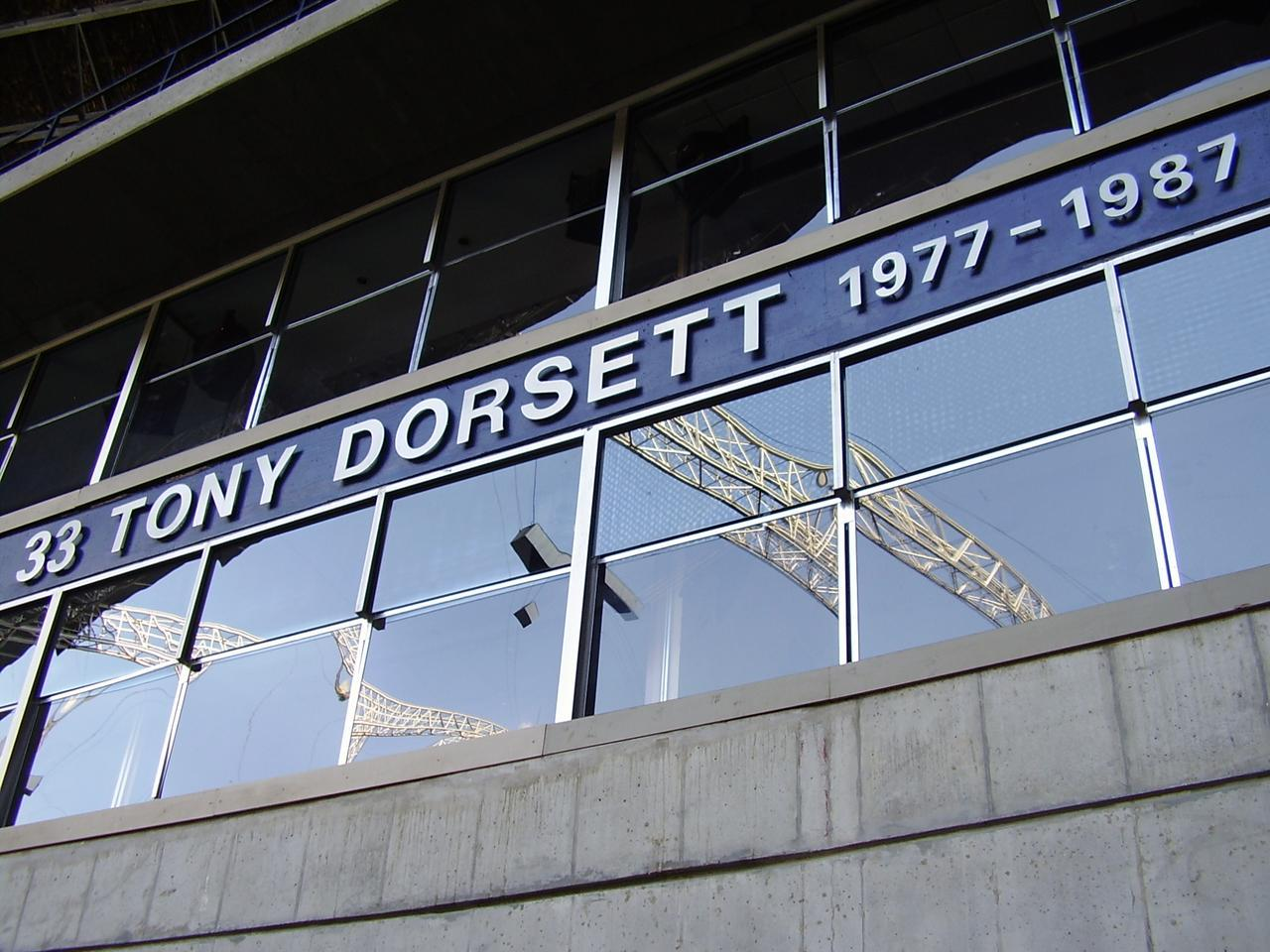 Cowboys Ring of honor